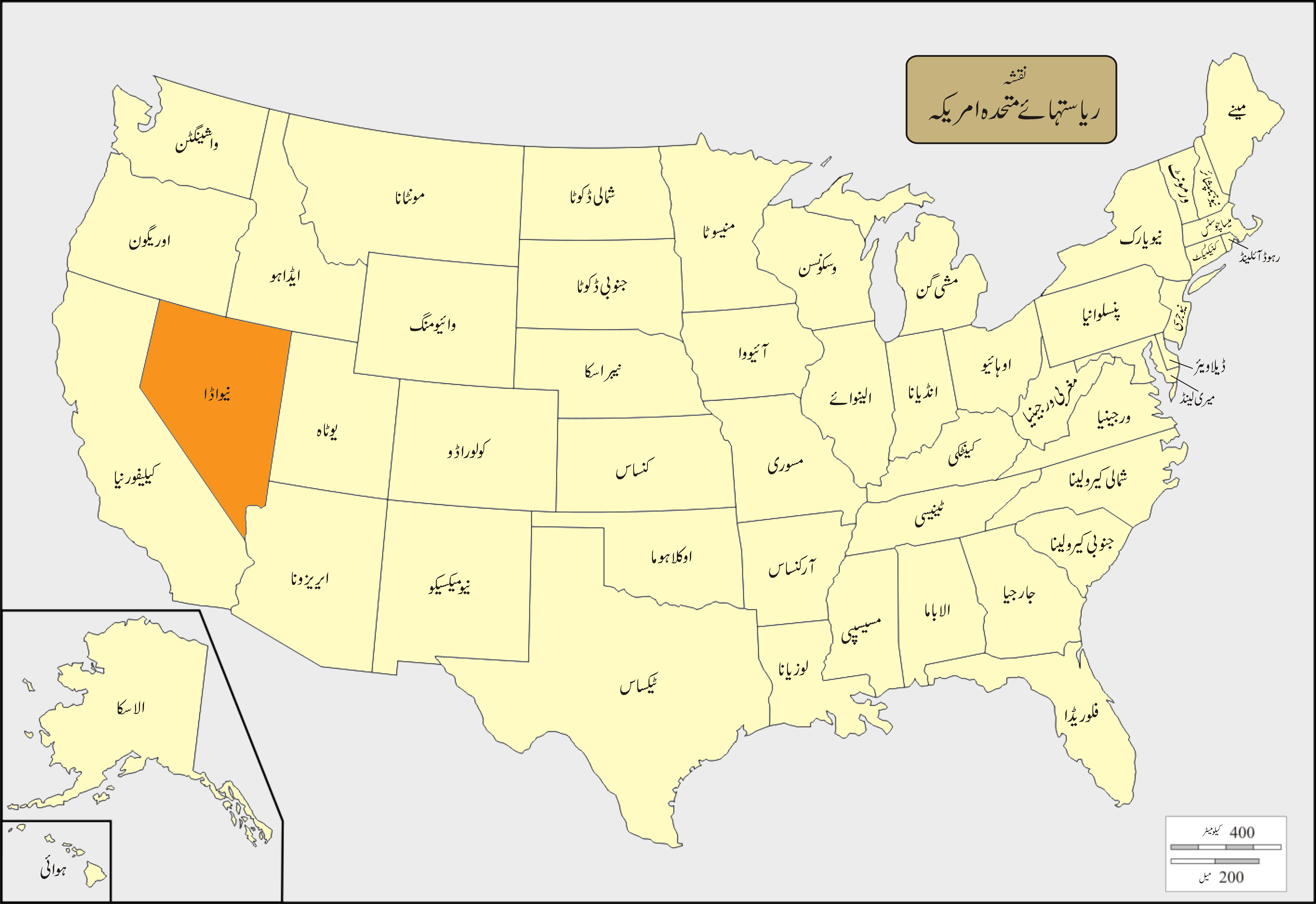 USA Names Nevada